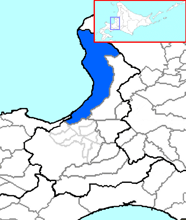 The location of Ishikari in Ishikari Subprefecture, Hokkaido Prefecture, Japan.